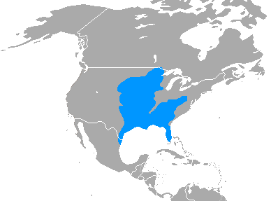 Eastern Spotted Skunk (Spilogale putorius) range map, made by me with help of Map depending on the range map at IUCN red list. Includes colonial borders.